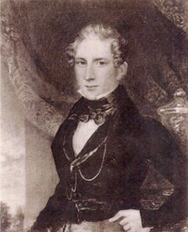 Charles Frederick Hancock (d. 10 February 1891)